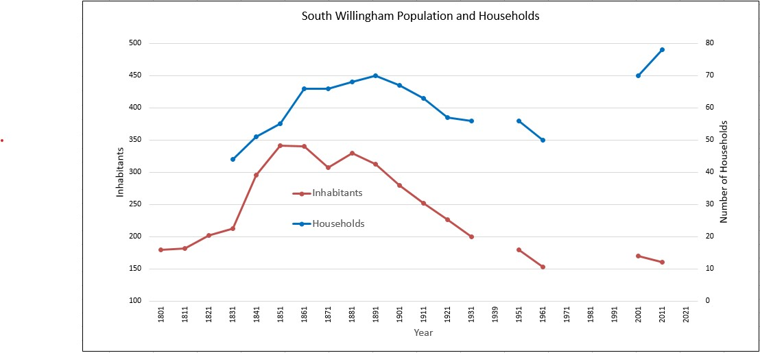 A chart of trends in census data for the village of South Willingham. Population of the village is plotted on one axis, households on the other.